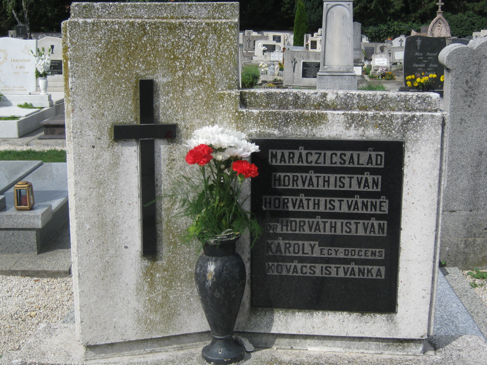 Istvan Charles Horvath classical scholar's tomb in Sarvar